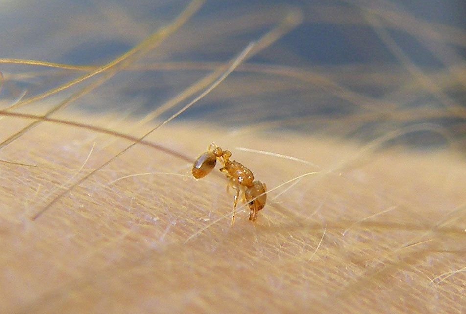 The little fire ant (Wasmannia auropunctata) biting a human, in Tel-Aviv University, Israel